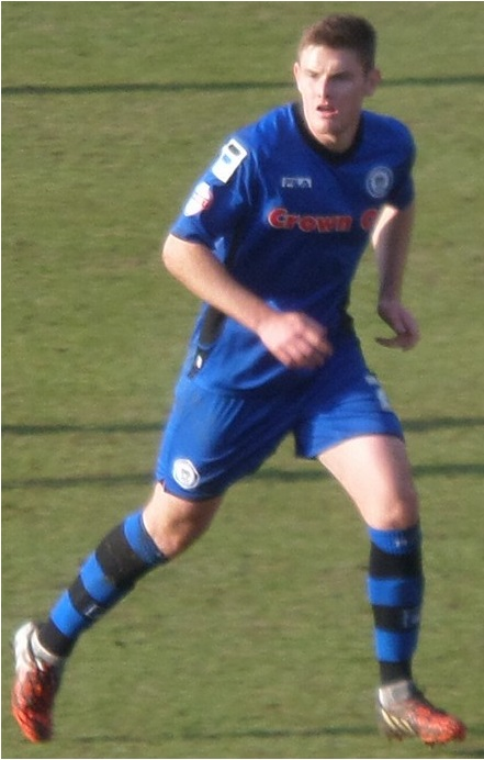 Jack O'Connell in 2015